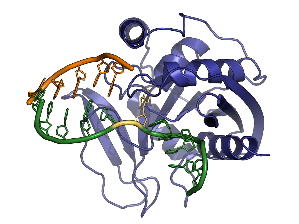 Crystallographic structure of the Thermotoga maritima endonuclease V protein (blue) in complex with DNA (green and orange). The deamidated base recognized by this enzyme is shown in yellow. Rendered from PDB entry 2W36 (chains A, C, D) using PyMol.